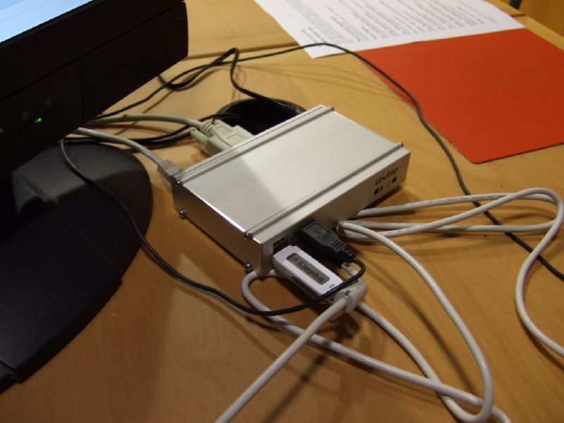 Linutop running with wire connections.